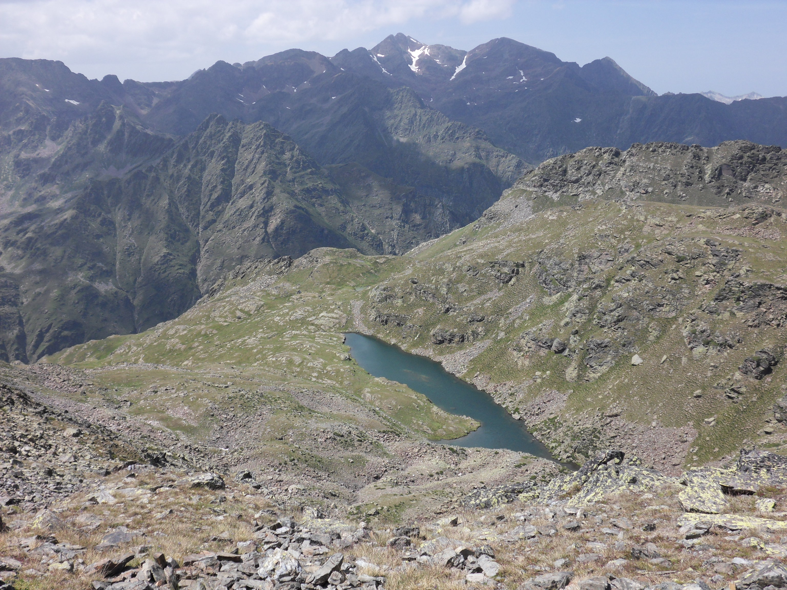 Aerial view to the west from the étang de Caraussans, a pond in the Pyrenees mountains, France. The image background shows the Pique d'Estats (3143m) and the Pic de Montcalm (3078m).